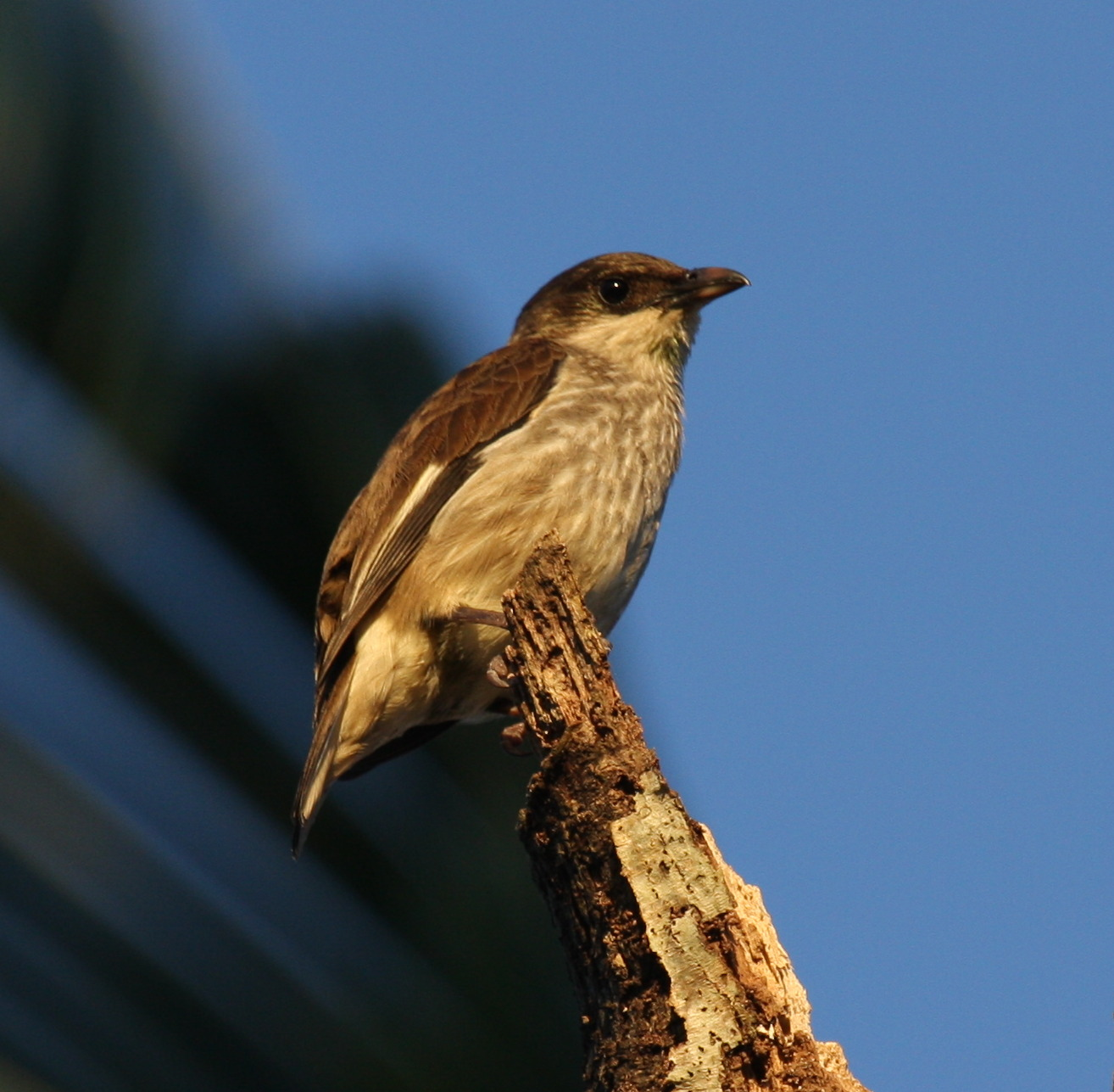 Polynesian Starling (Aplonis tabuensis) Matei, Taveuni, Fiji Isles